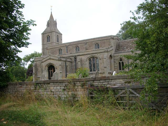 Church of St Margaret, Luddington in the Brook. The church stands in the fields, approached only by a rough track and a footpath.